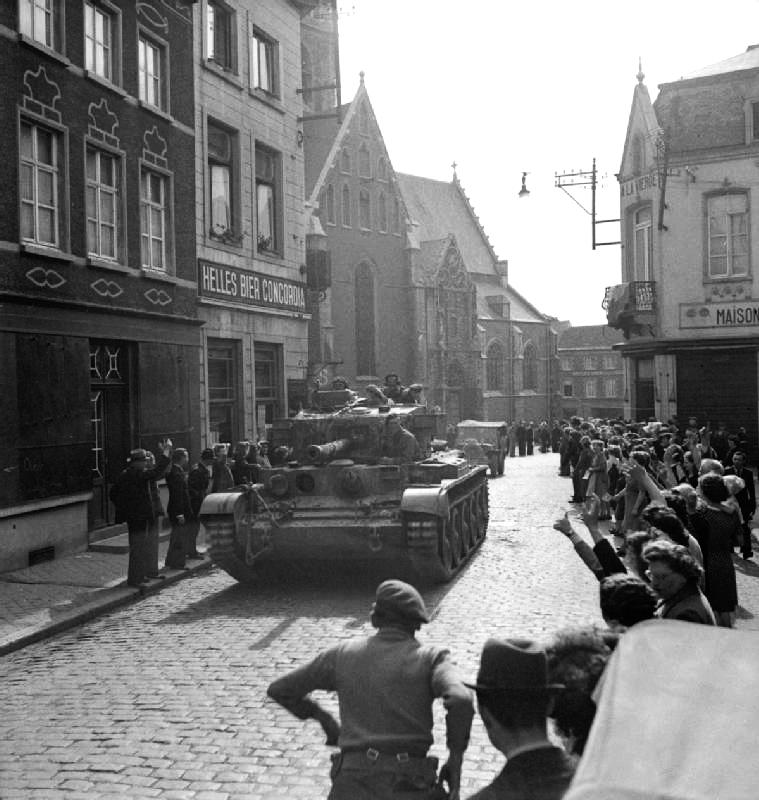 The British Army in North-west Europe 1944-45 The crew of a Cromwell Mk IV tank of 2nd Welsh Guards on the drive into Brussels, 3 September 1944. Despite sporadic resistance from the Royal Palace and Gestapo HQ, the city’s capture went smoothly, ‘the chief difficulty being to cope with the populace who were very effusive in their welcome’, as the Battalion’s war diary put it with typical understatement.